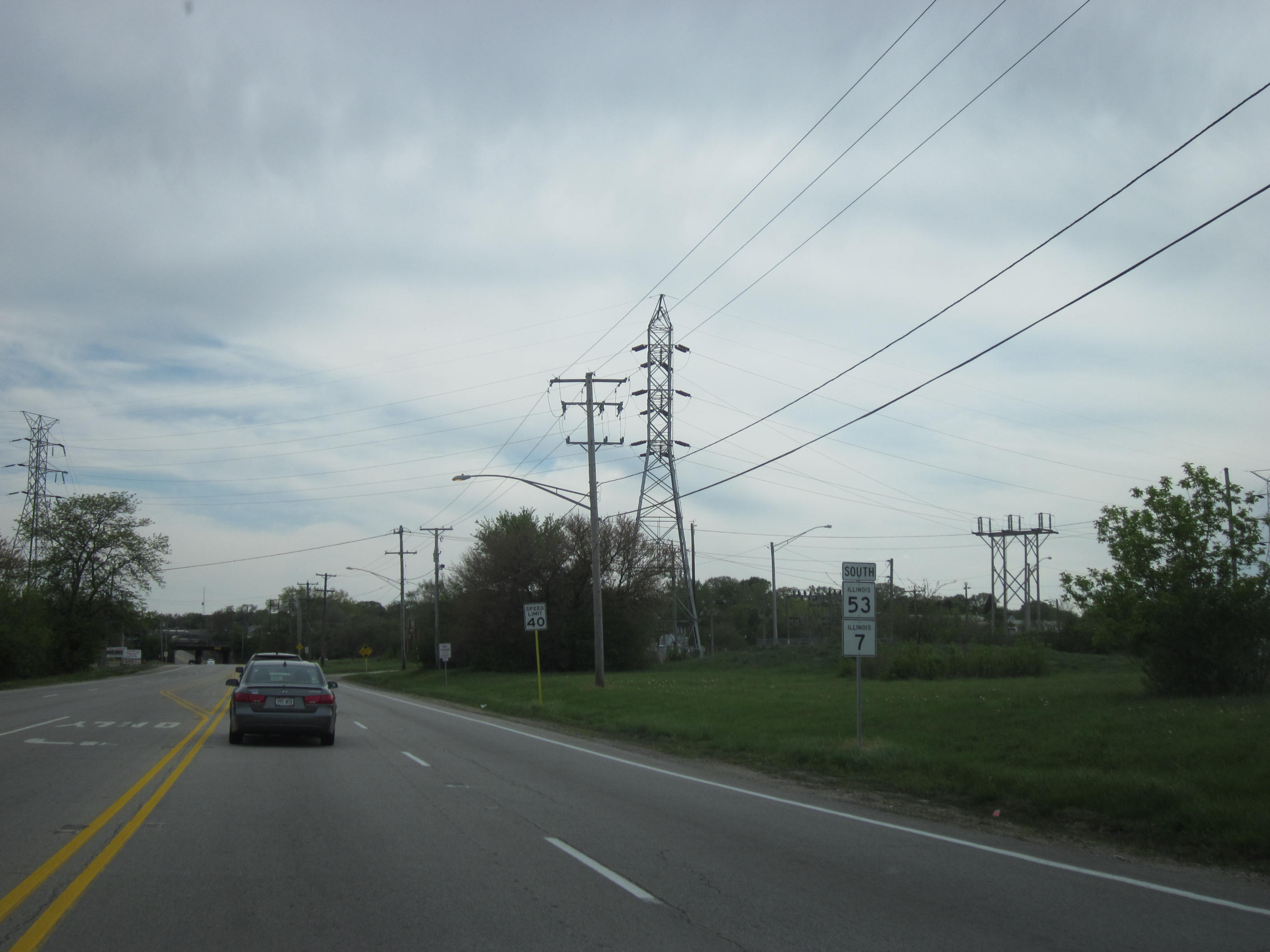 Illinois Route 7 and Illinois Route 53